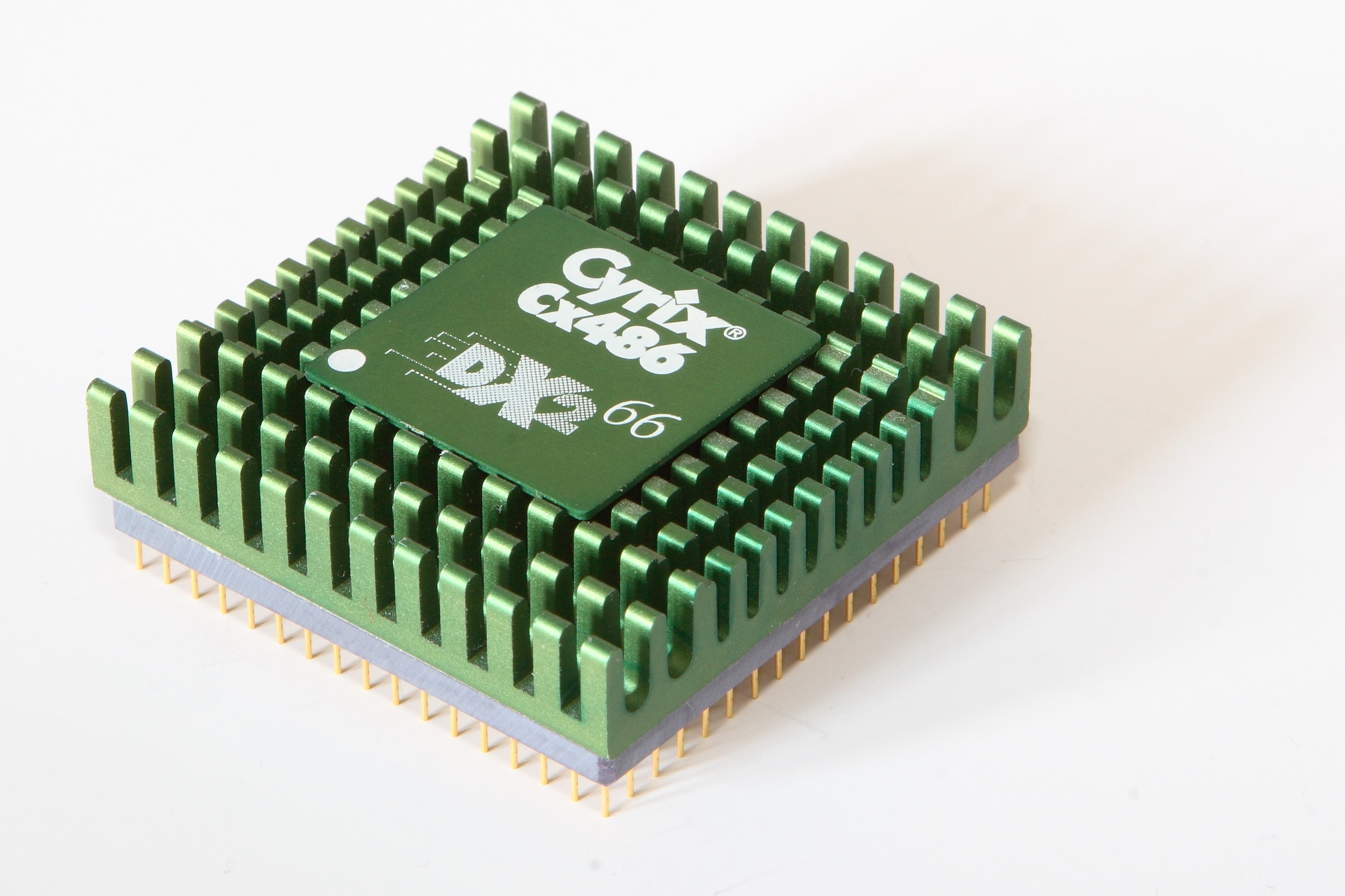 Cyrix 486 DX2 66MHz Camera data Camera Canon EOS 30D Lens Canon EF 24-70 mm 2.8 L USM Focal length 70 mm Aperture f/19 Exposure time 15 s Sensivity ISO 100 Image Editing Programs Canon Digital Photo Professional